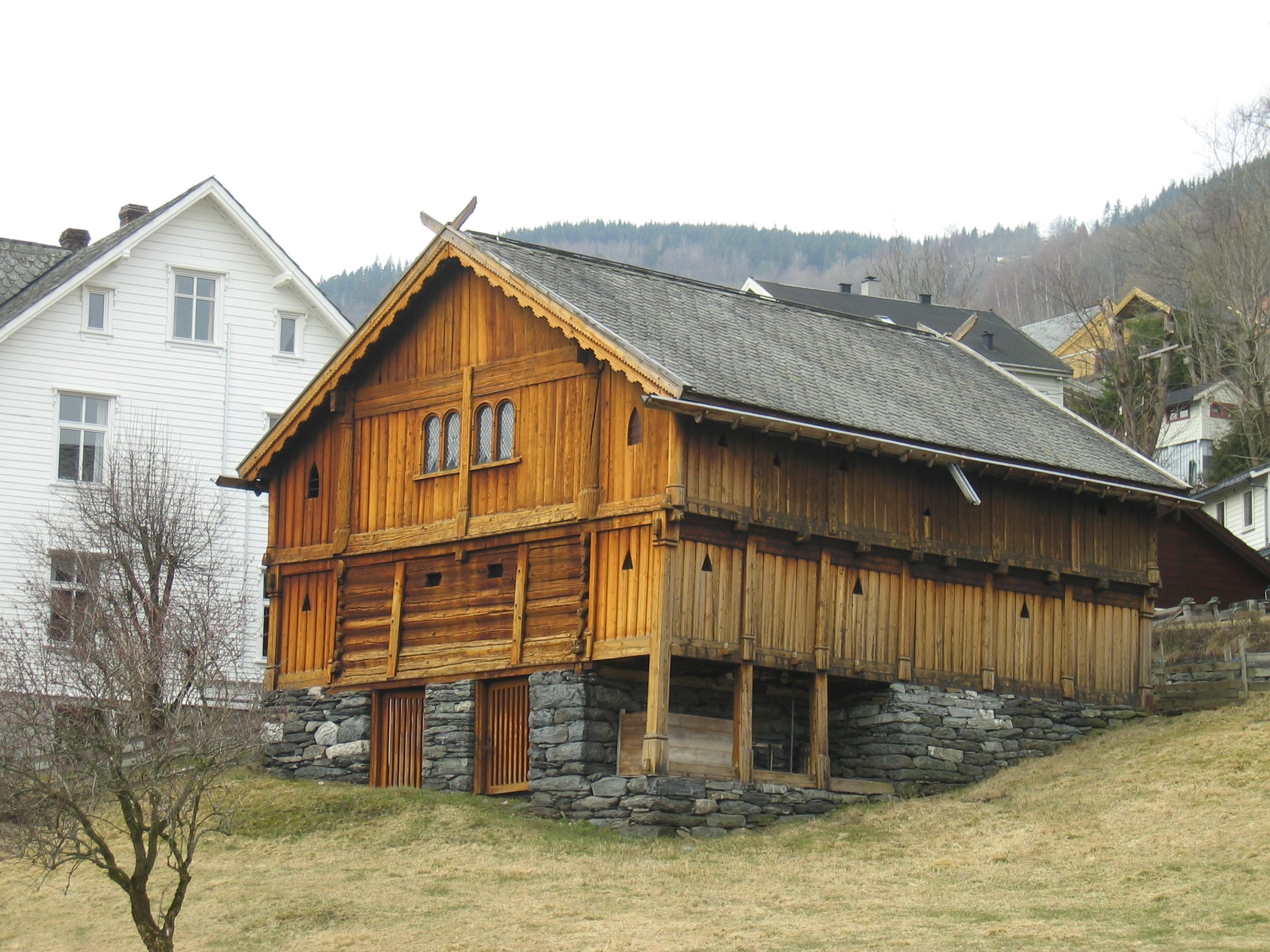 Finnesloftet, Voss, Norway. A Guild Hall from 1295. Nynorsk: Finnesloftet, Voss, Noreg. Bygd kring 1295.